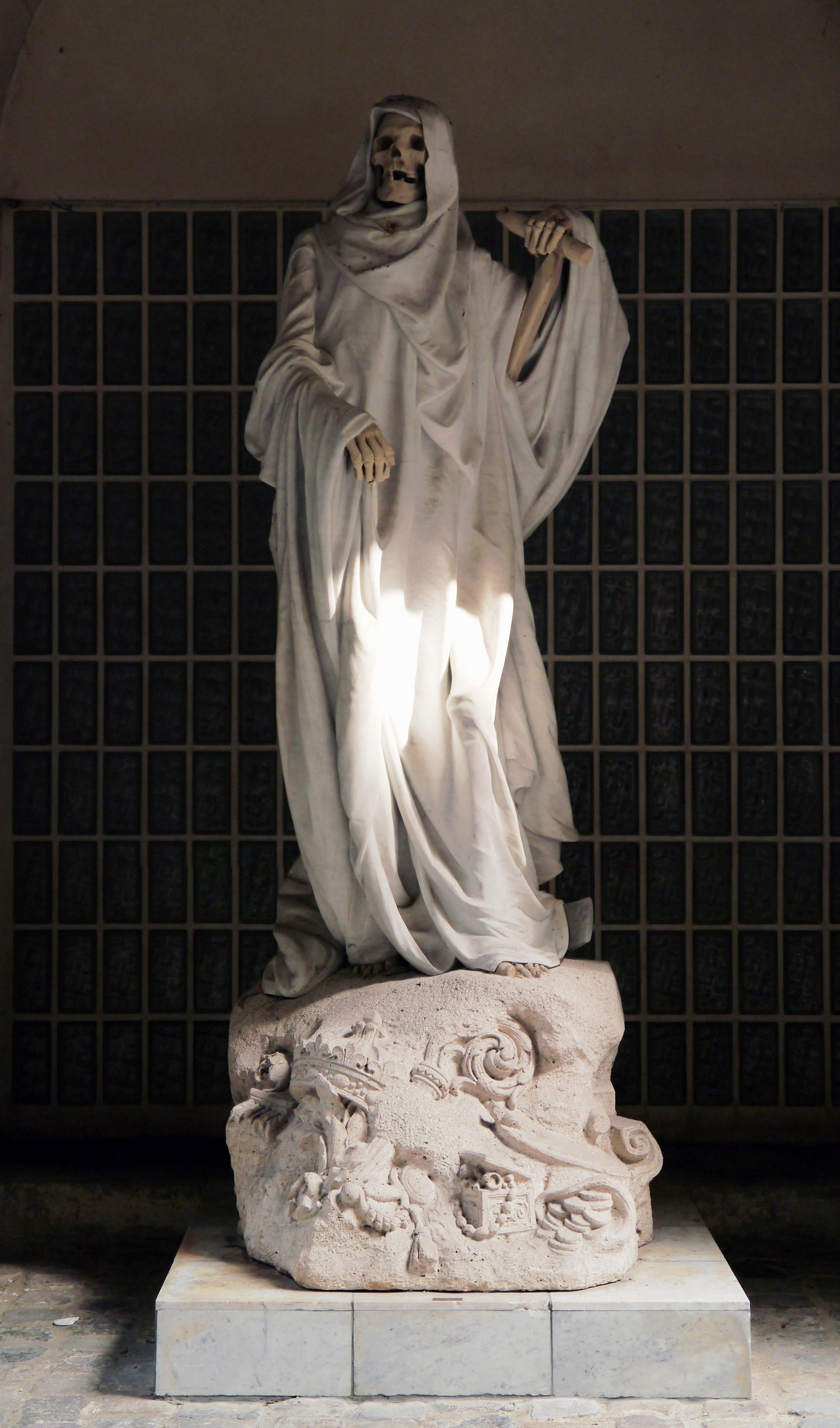 La Mort (Death), Henri Allouard, 1910. Death is depicted crushing symbols of vanity. Statue is erected in the former couvent des Cordeliers, rue de l'École-de-Médecine, Paris 6th arrondissement.